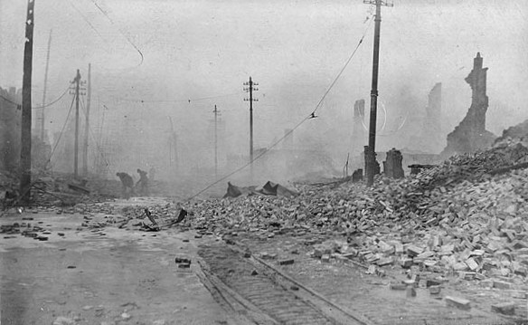 Identification of subject of photo needed. A black and white photograph, looks like ruined buildings.